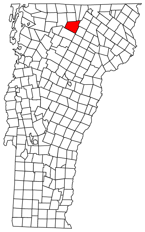 Description: Map of Vermont towns with Lowell highlighted Source: Map created by Jared C. Benedict on 26 March 2004. Copyright: © Jared C. Benedict.